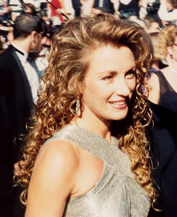 Actress Jane Seymour, 1994Jane Seymour on the red carpet at the Emmys 9/11/94